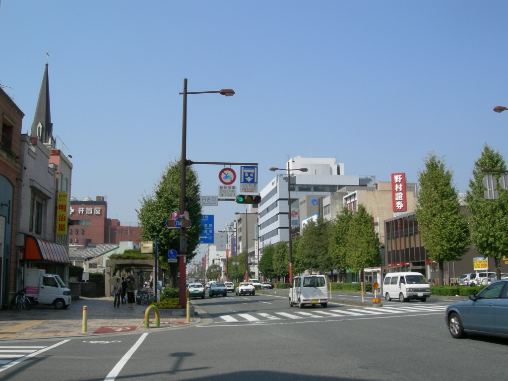 The National Highway 209 near Hiyoshimachi Intersection, the center of Kurume city, Fukuoka, Japan. Taken by Minto (みんと) in October 2006.